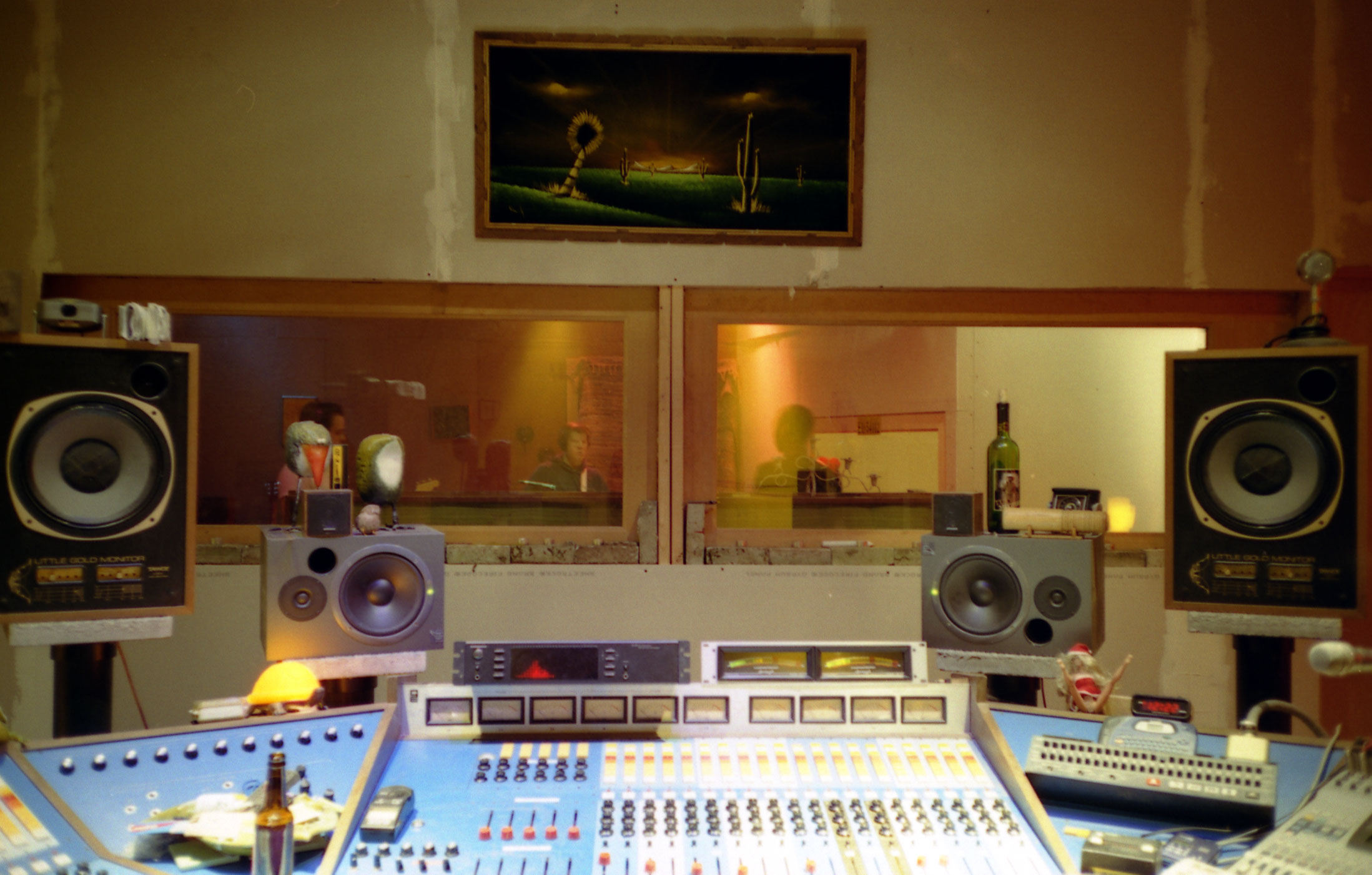 Band-Through-Glass: Recording Sharks Keep Moving "Pause and Clause" at Spectre North in scenic Renton, Washington, sometime in 2000, I believe.